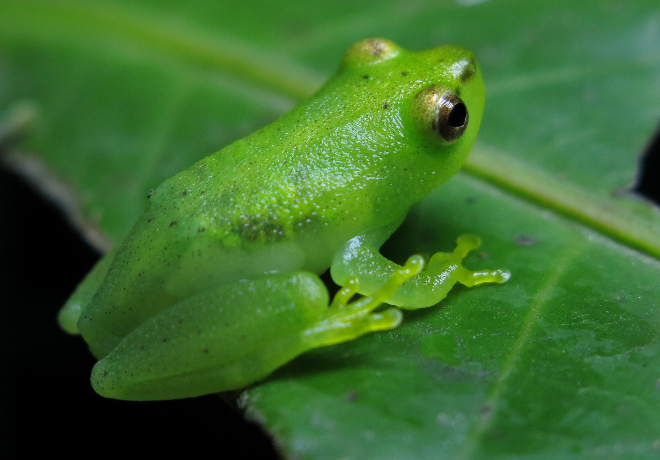 Hyperolius pusillus in situ